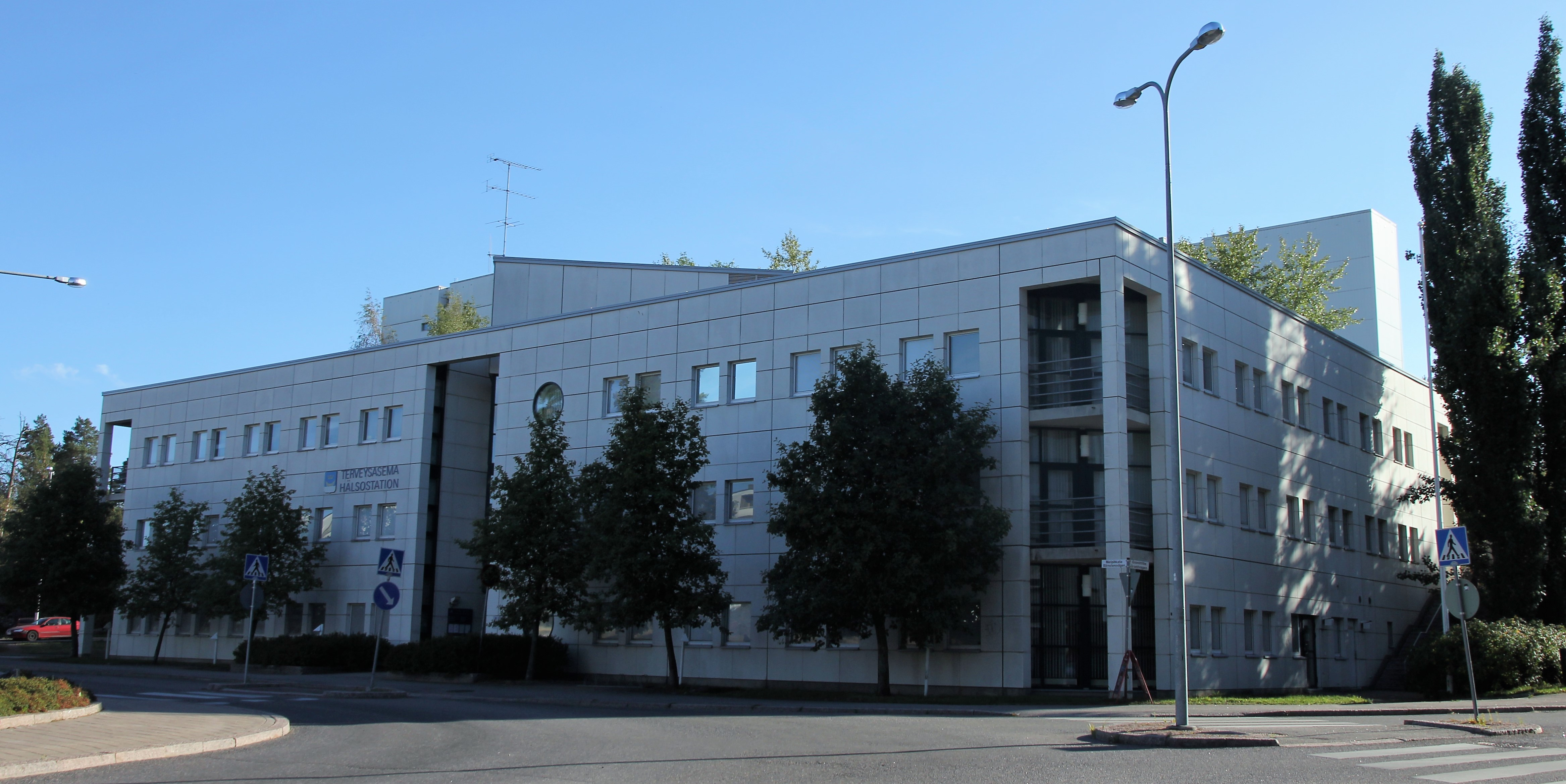 Pihlajamäki health station in Pihlajamäki, Helsinki. Address: Meripihkatie 8, 00710 Helsinki.